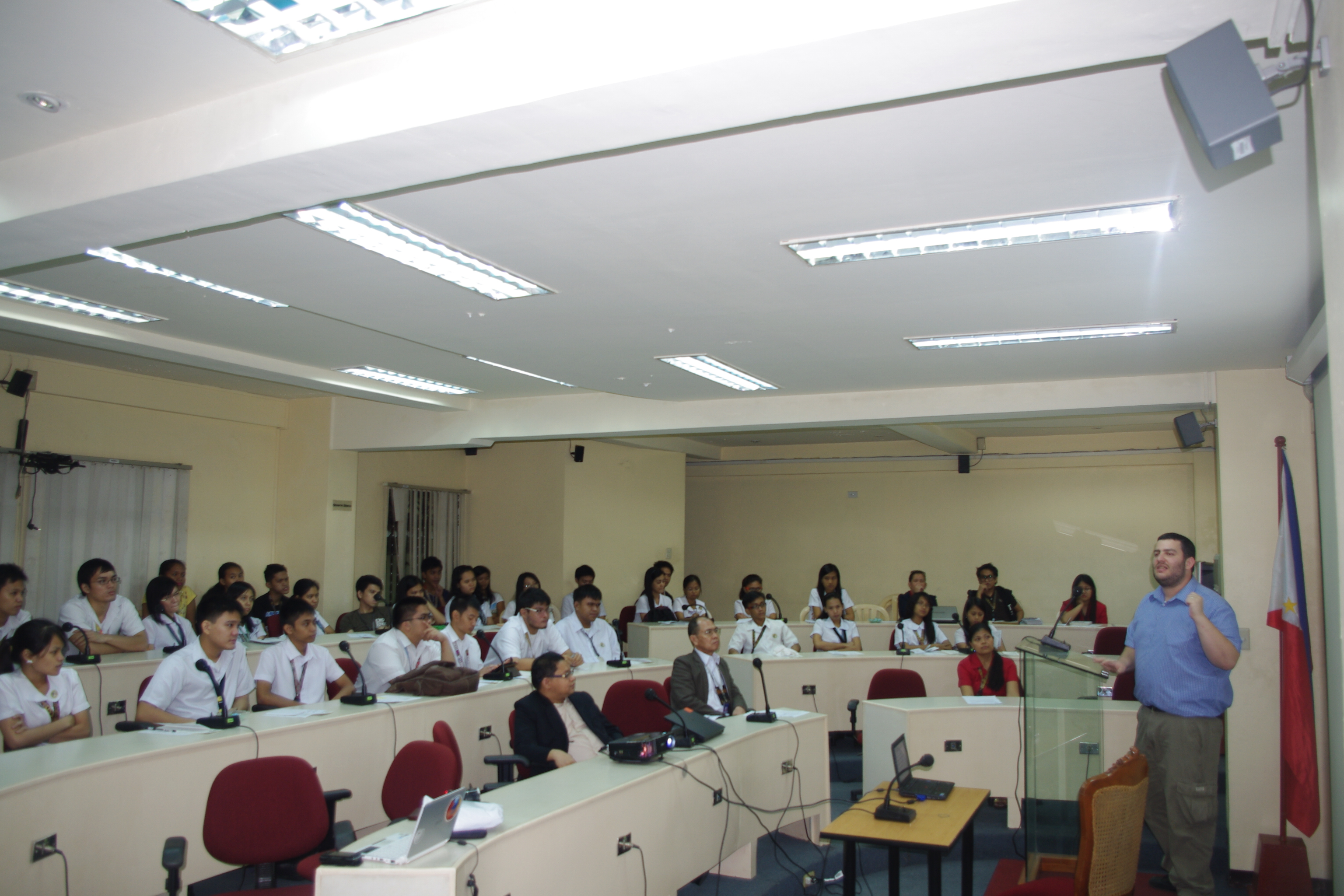 2011 Wikimedia East Asia Tour: Philippines - Asaf Bartov gives his outreach talk to PLM students and staff